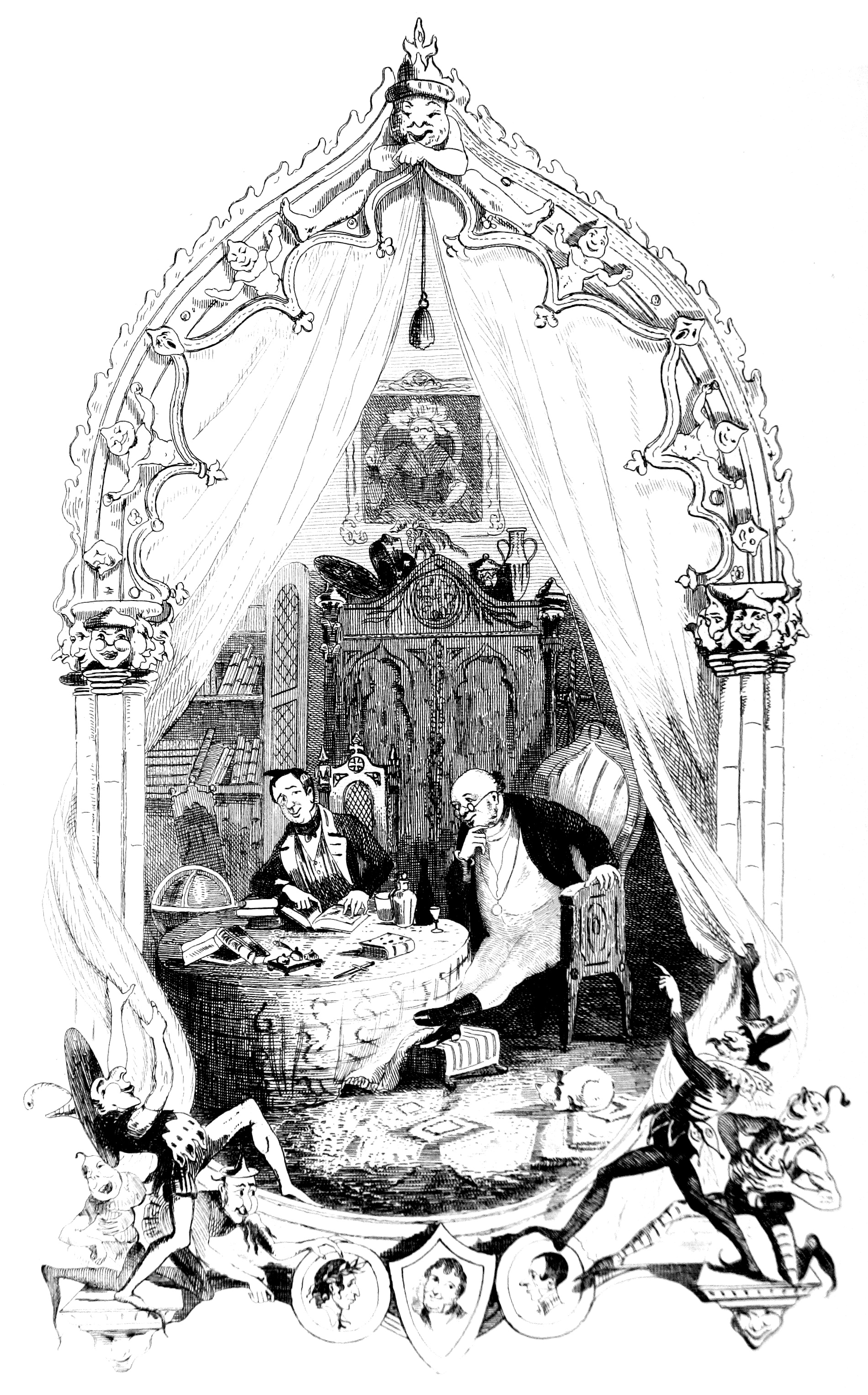 A photograph of an engraving in The Writings of Charles Dickens volume 1, The Pickwick Club, titled "Mr. Pickwick and Sam Weller". I converted the original photograph to greyscale and adjusted its levels. I then rotated, cropped, and sharpened the image.